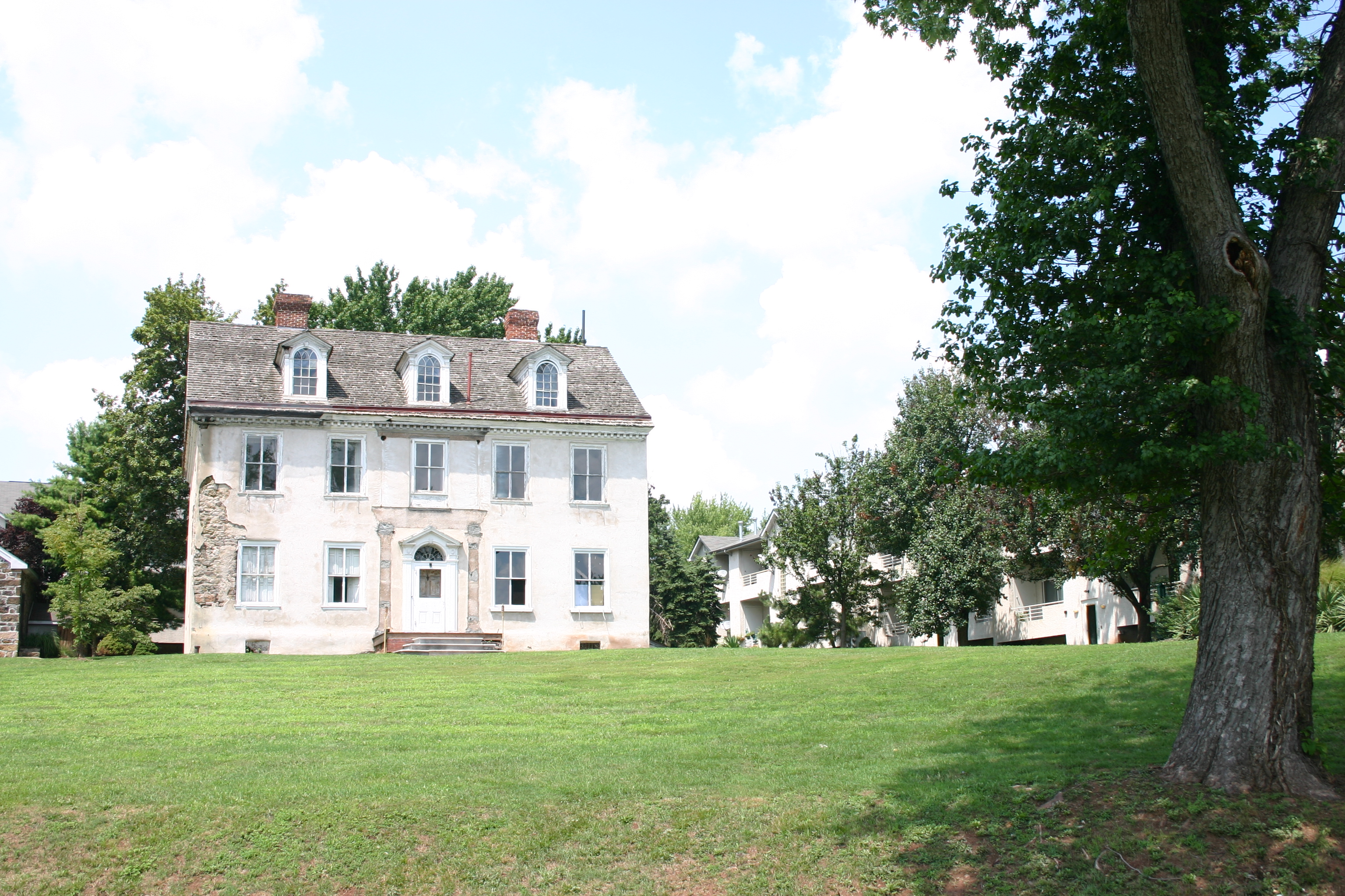 Historic Selma Mansion in Norristown, PA's West End neighborhood